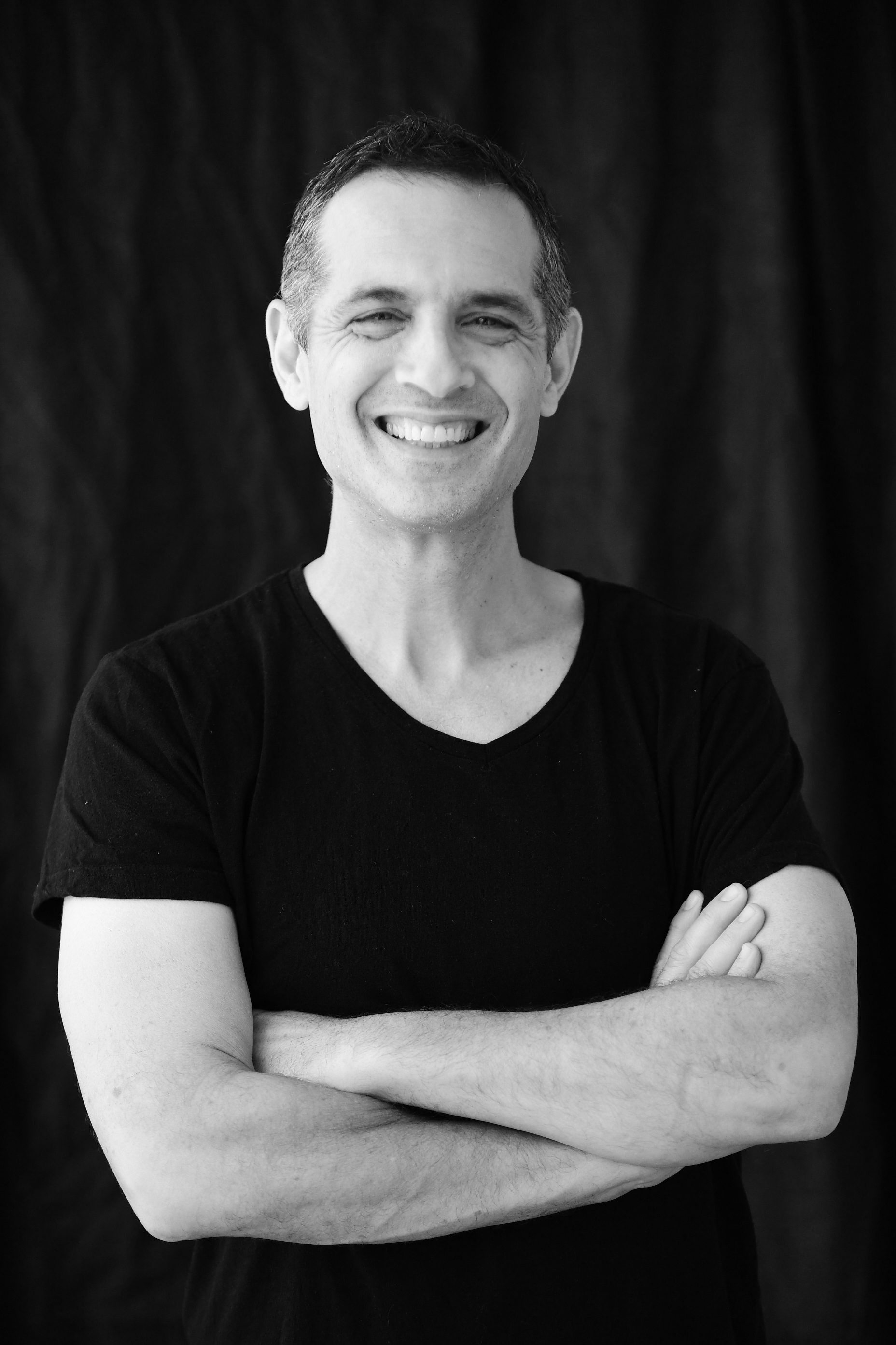 Nathan Ravitz